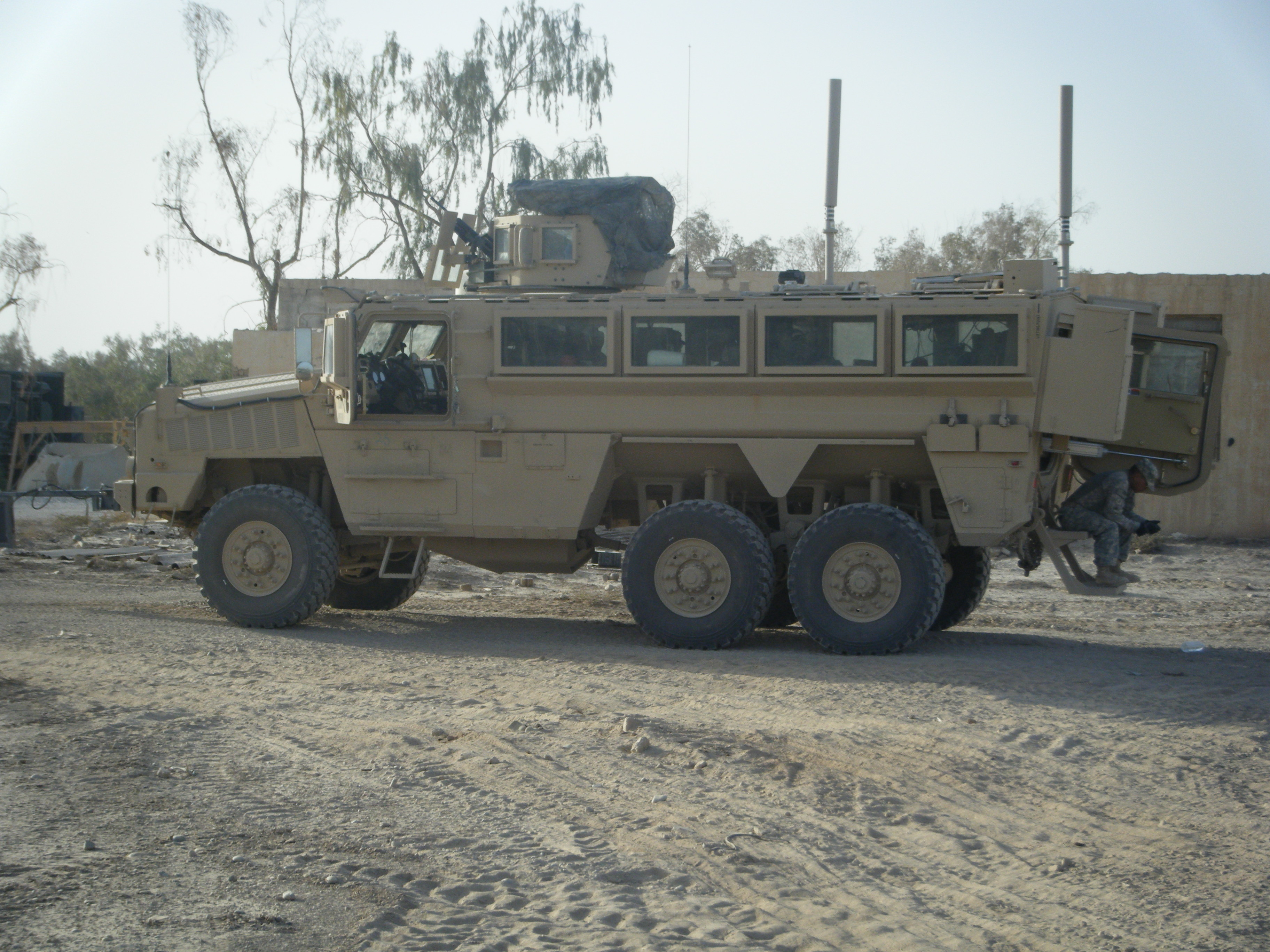 Category:RG-33